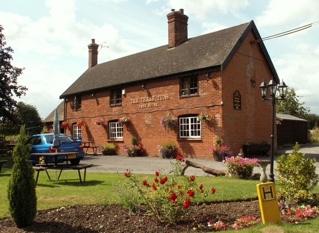 'The Three ways' inn at Cowlinge, near to Cowlinge, Suffolk, Great Britain.